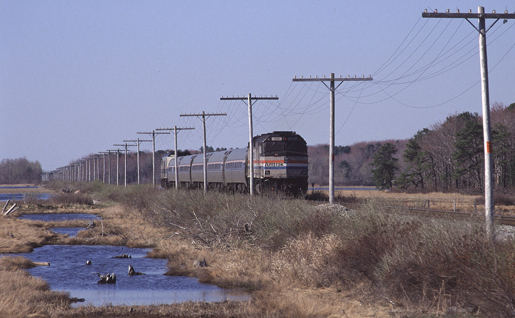 A southbound Amtrak Downeaster train crossing Scarborough Marsh in Scarborough, Maine, on the Guilford Rail System mainline. In this photo, the train is moving away from the photographer, being pushed by Amtrak F40PH locomotive #288.